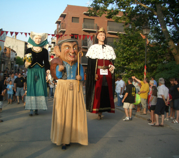 The Gians of Sant Pere de Vilamajor (Catalonia) at the summer celebration in 2009.